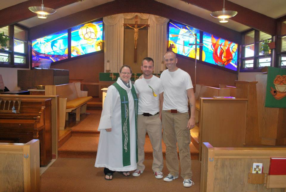 MNYS Pastor perform marriage ceremony